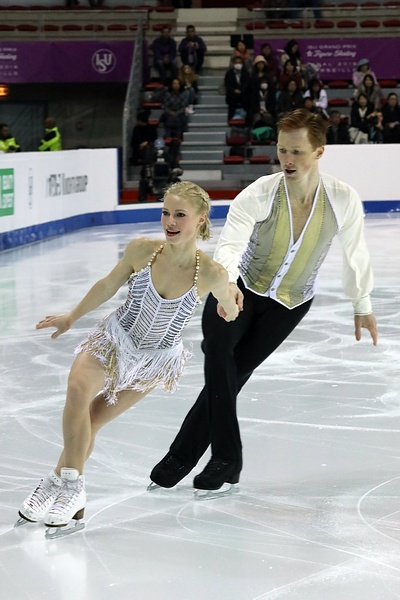 Evgenia Tarasova and Vladimir Morozov at the 2016–17 Grand Prix of Figure Skating Final.